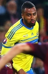 Isaac Kiese Thelin